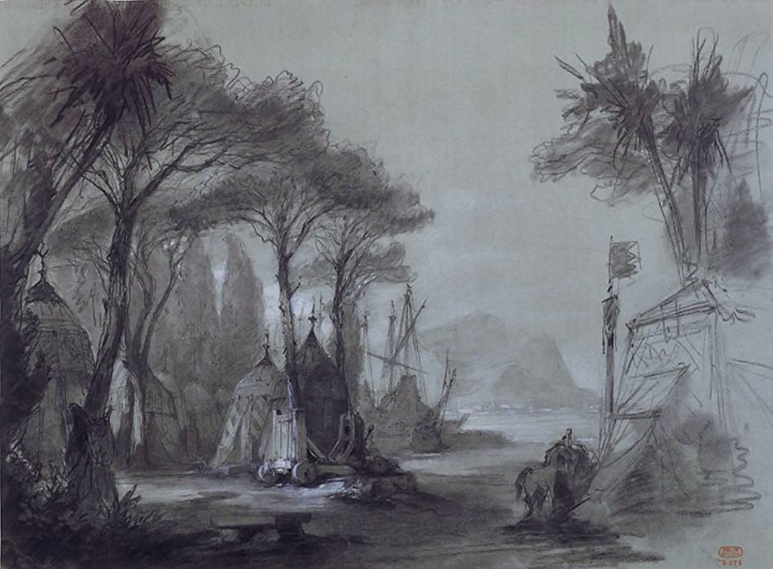 Charles Cambon's sketch for the stage set of the first act of Robert le Diable (1831)